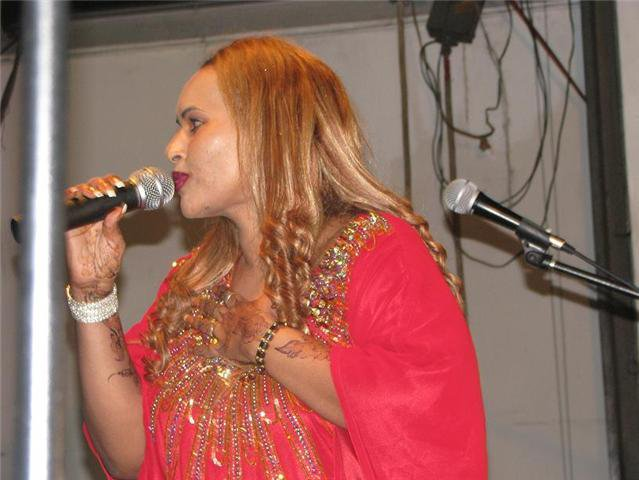 Contemporary Somali singer Fartuun Birimo (Fartuun Axmed Sahal) performing, 2013.